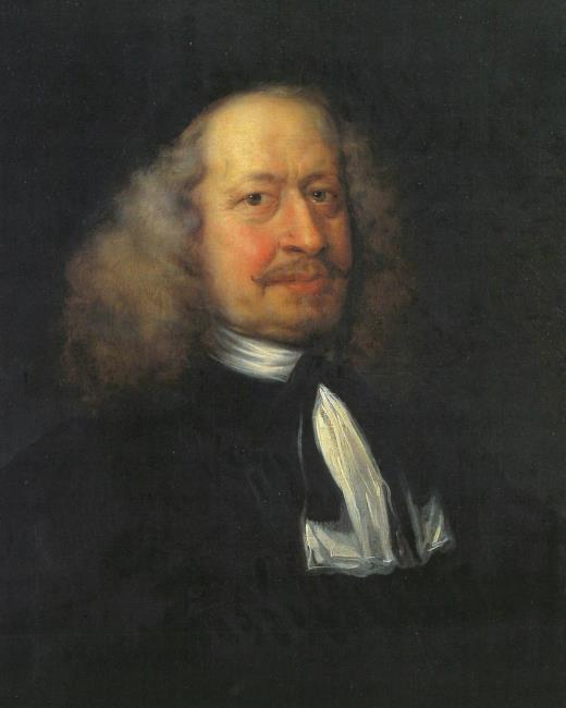 Adam Olearius (1603-1671) German writer, explores, diplomat, and philologist